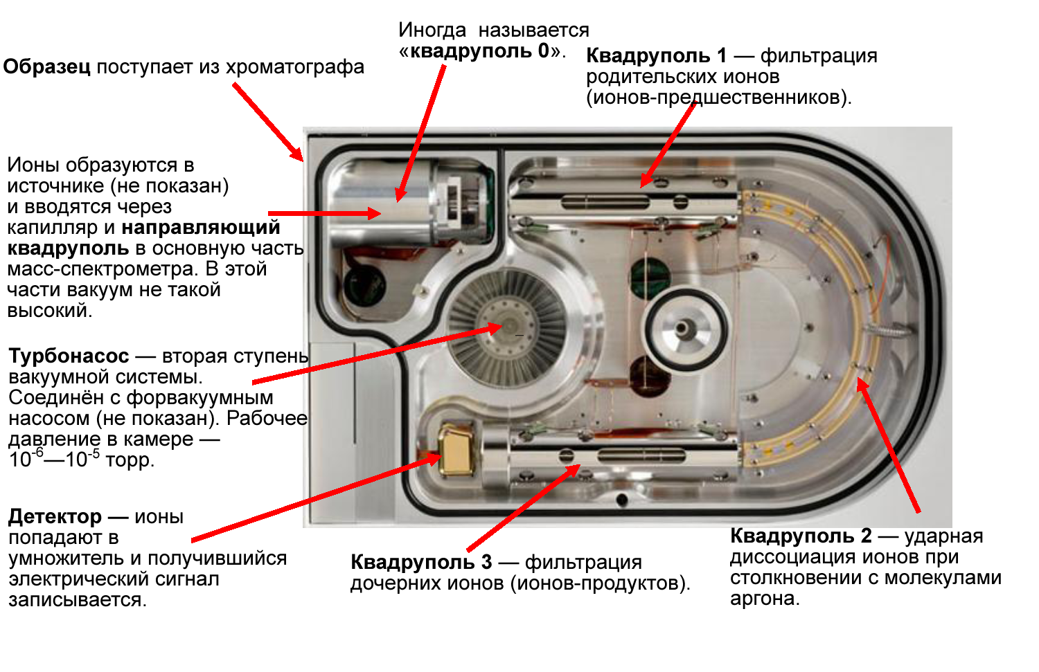 How MS-MS works in Triple Quadrupole (QQQ) mass-spectrometer, what happens and where.